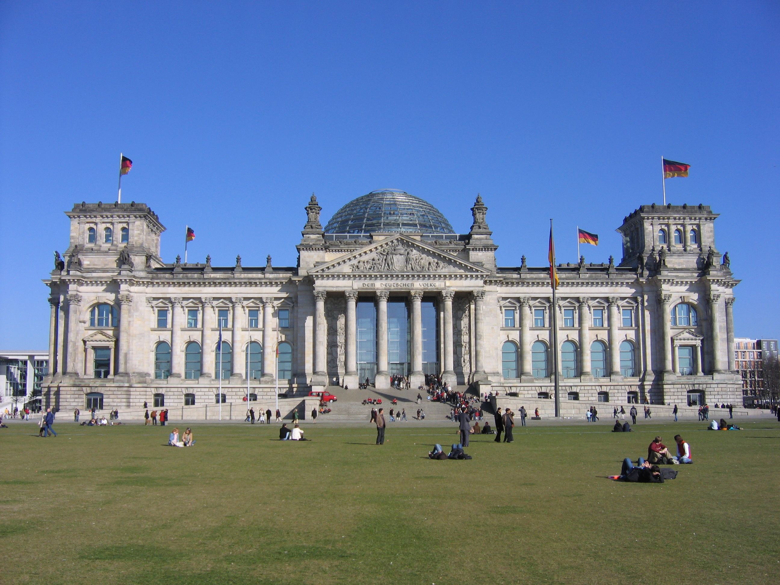 Reichstag